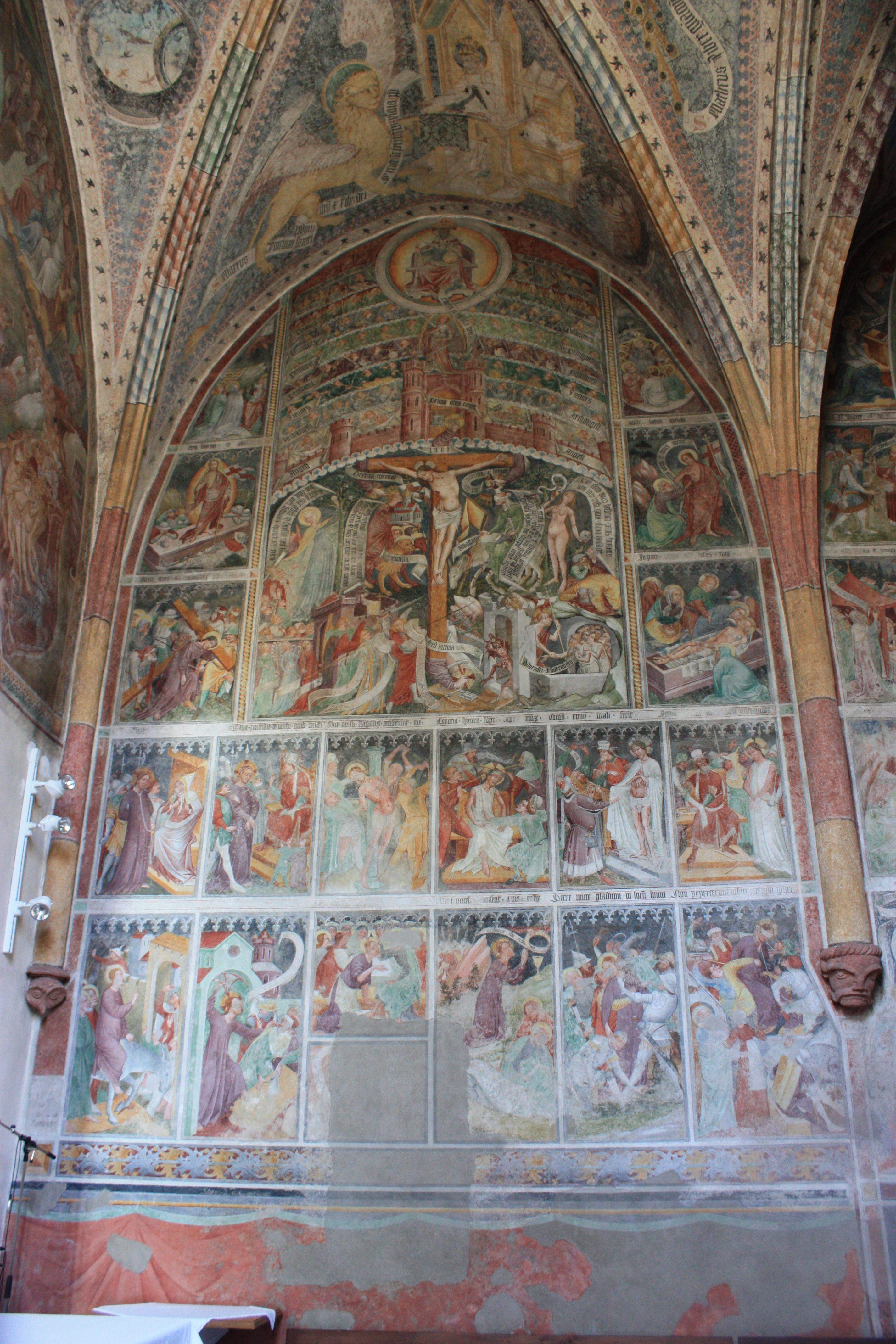 Parish church: Fesco: crucifixion Locality:Thörl-Maglern Community:Arnoldstein